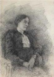 Norma Borthwick by John Butler Yeats dated 1902